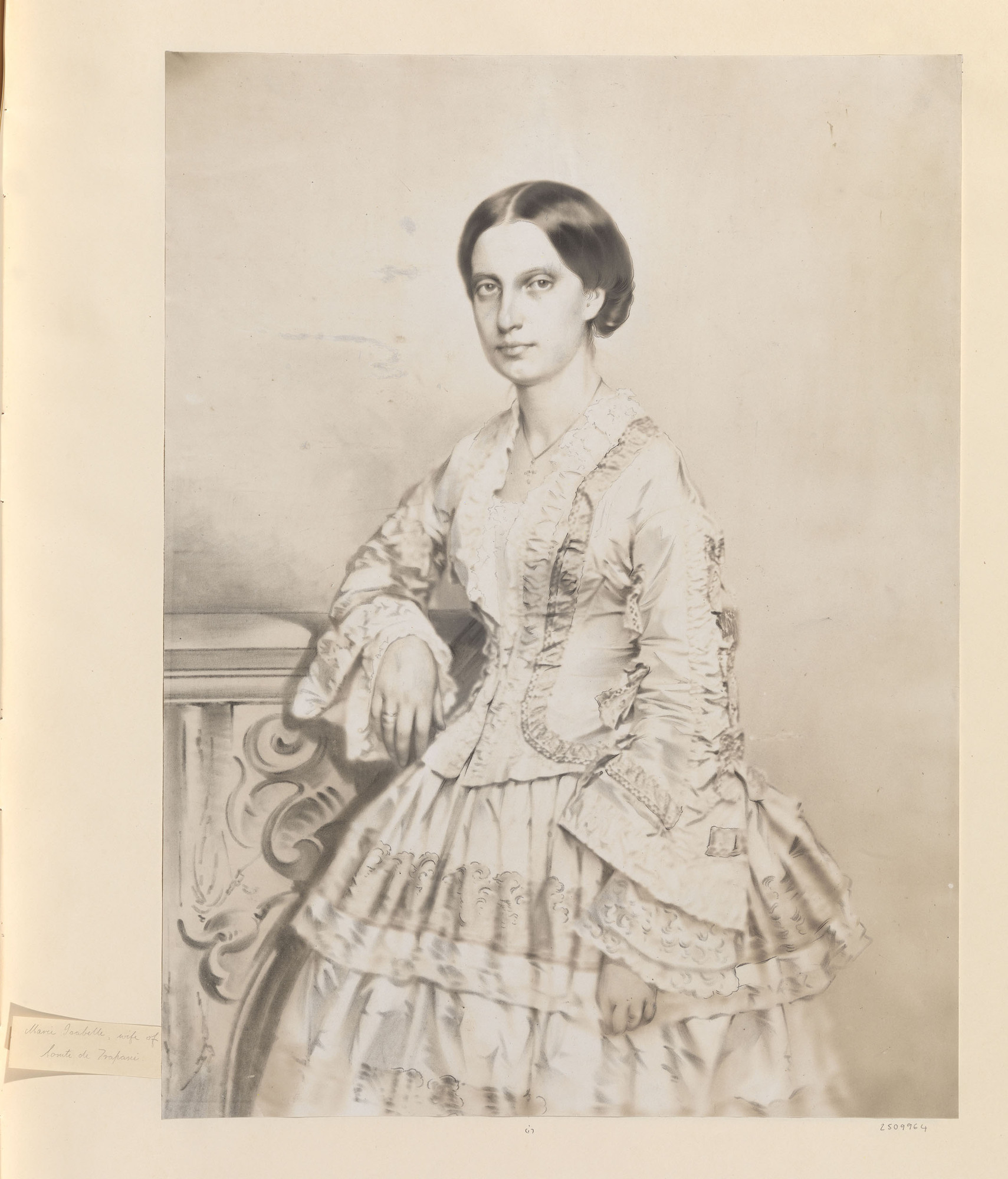 Isabella, Countess of Trapani